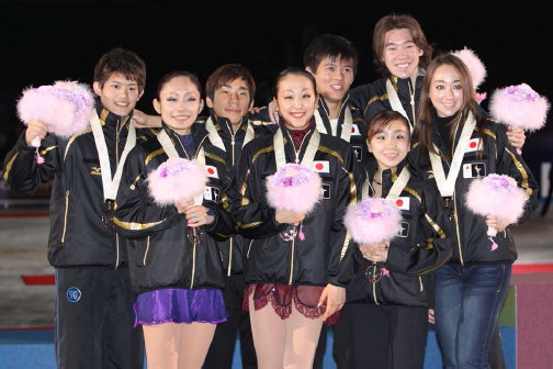 Team Japan poses with its bronze medals:(front row,from left)Miki Ando,Mao Asada,Narumi Takahashi,Cathy Reed;(back row,from left)Takahiko Kozuka,Nobunari Oda,Mervin Tran,Chris Reed.